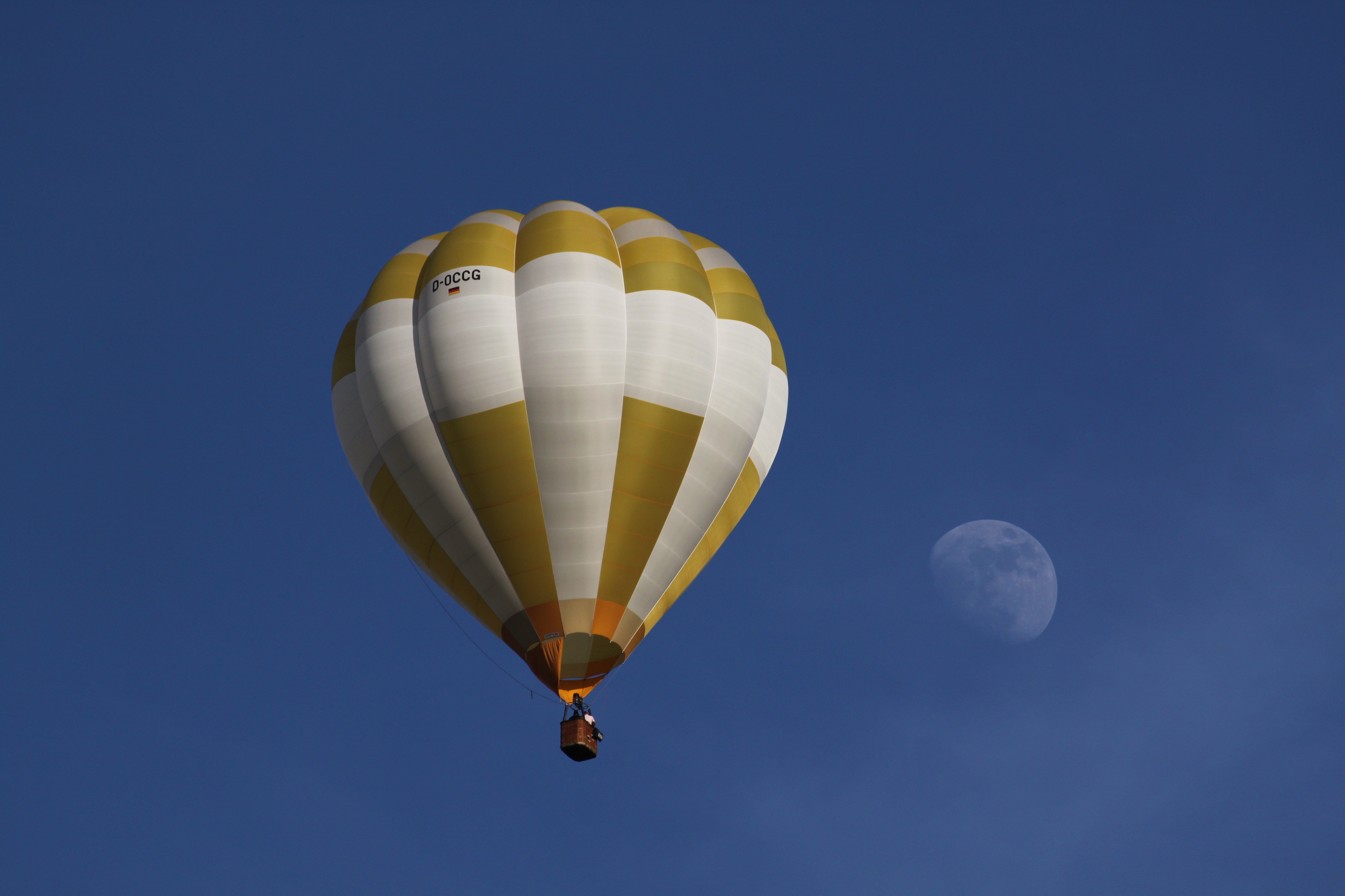 Hot air balloon and moon in the sky above Speyer